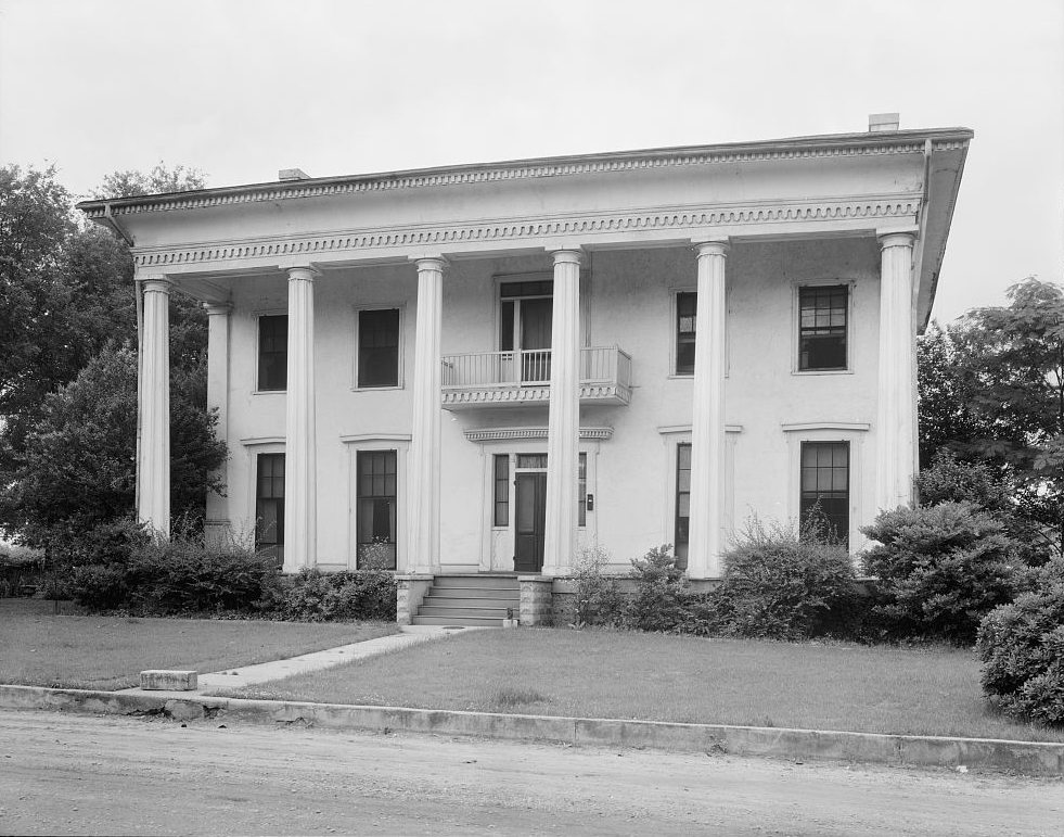 Mrs. J.J. Mayfield House, 610 36th Ave., Tuscaloosa, Tuscaloosa County, Alabama. Listed on the National Register of Historic Places as the "Carson Place."